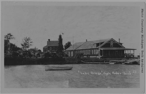 "Lake Breeze" Eagle Harbor, Mich. The hotel has been made out of the old Keweenaw Central Railroad warehouse. The water seen near the porch is Lake Superior, while the small boats are in the harbor itself. This used to be a place of refuge during storms but it is not deep enough now.